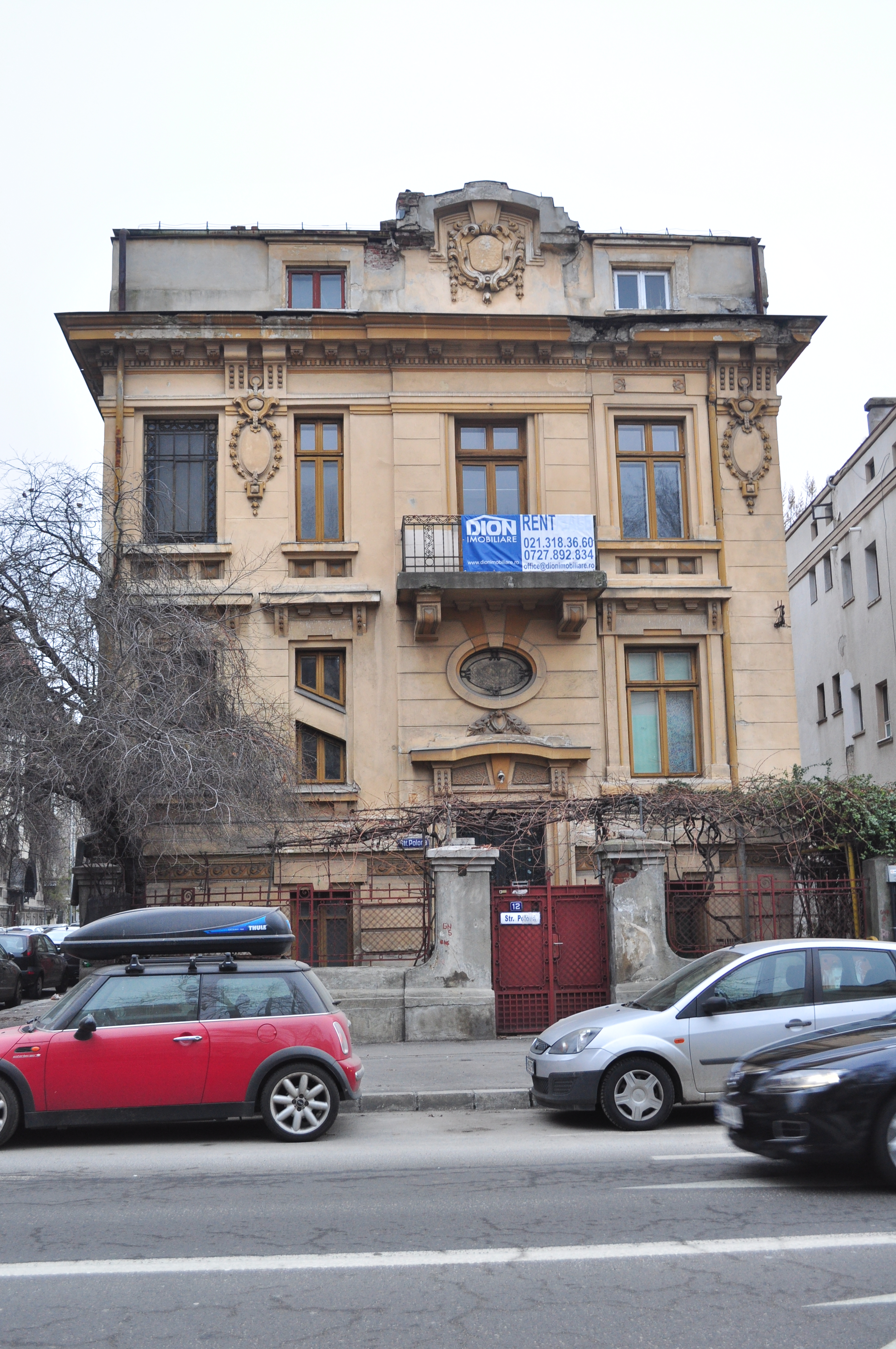 House in Str. Polonă, nr. 12, Bucharest Sector 1, Romania.